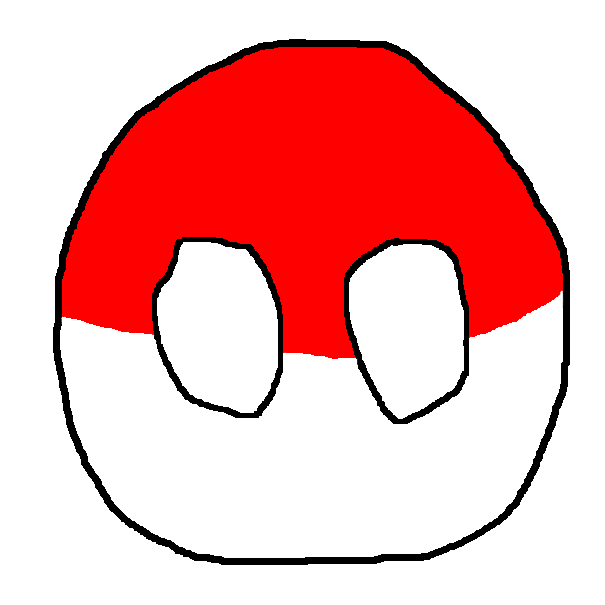 A user-generated representation of Polandball.